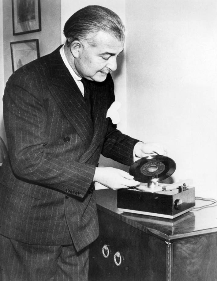 Arthur Fiedler demonstrates the new RCA 45 rpm record player and a 45 rpm record. Fiedler was then the conductor of the Boston Pops orchestra and the host of the RCA Victor Show on NBC Radio, as well as an RCA Victor recording artist.